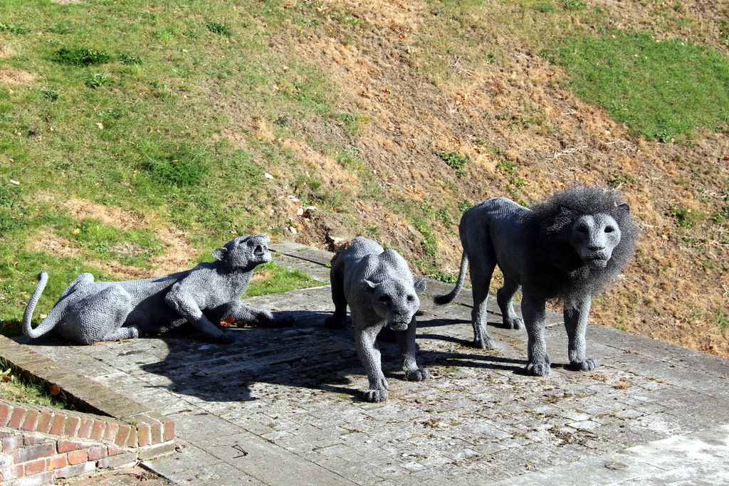 Model Animals, Tower of London